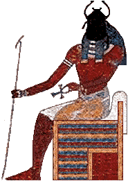 Wall painting of Khepri